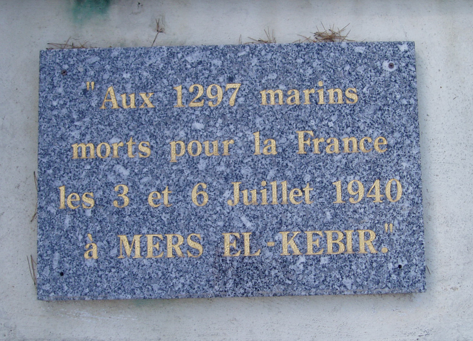 Mers el Kebir Memorial at Toulon, France In English the text reads "1297 Sailors died for France on the 3rd and 6th of July 1940 at Mers-El-Kabir"